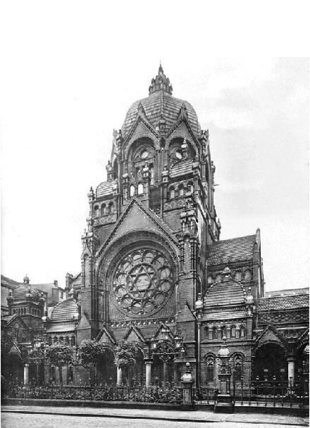 Synagogue of Glogau (1892-1938) destroyed by the nazis during Kristal Nacht